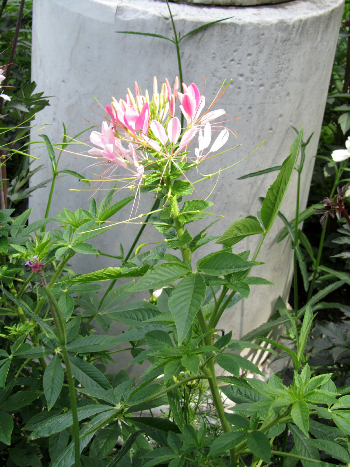 Cleome Spinosa in Park Sanssouci, Potsdam, Germany